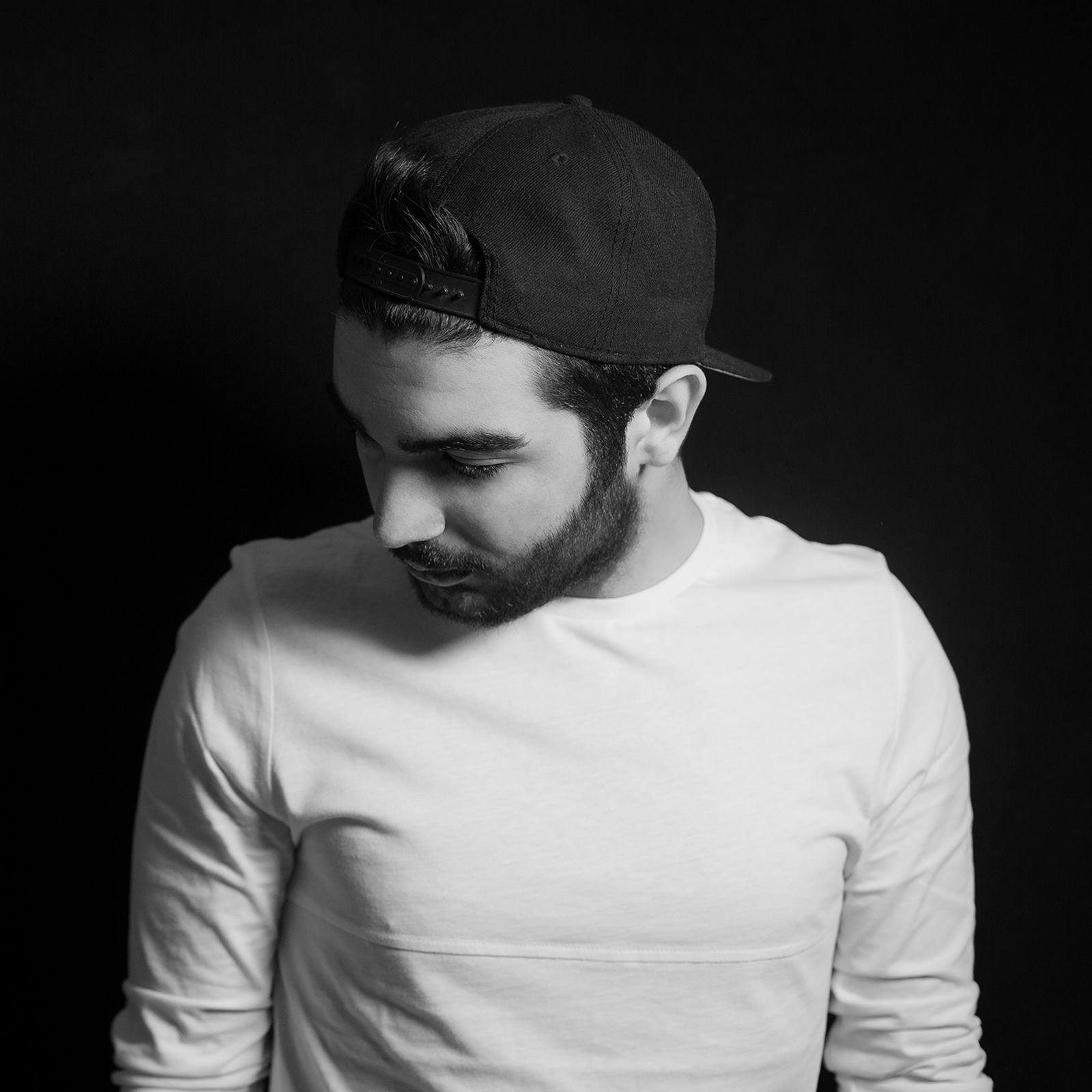 Photo: Bali Baghirli